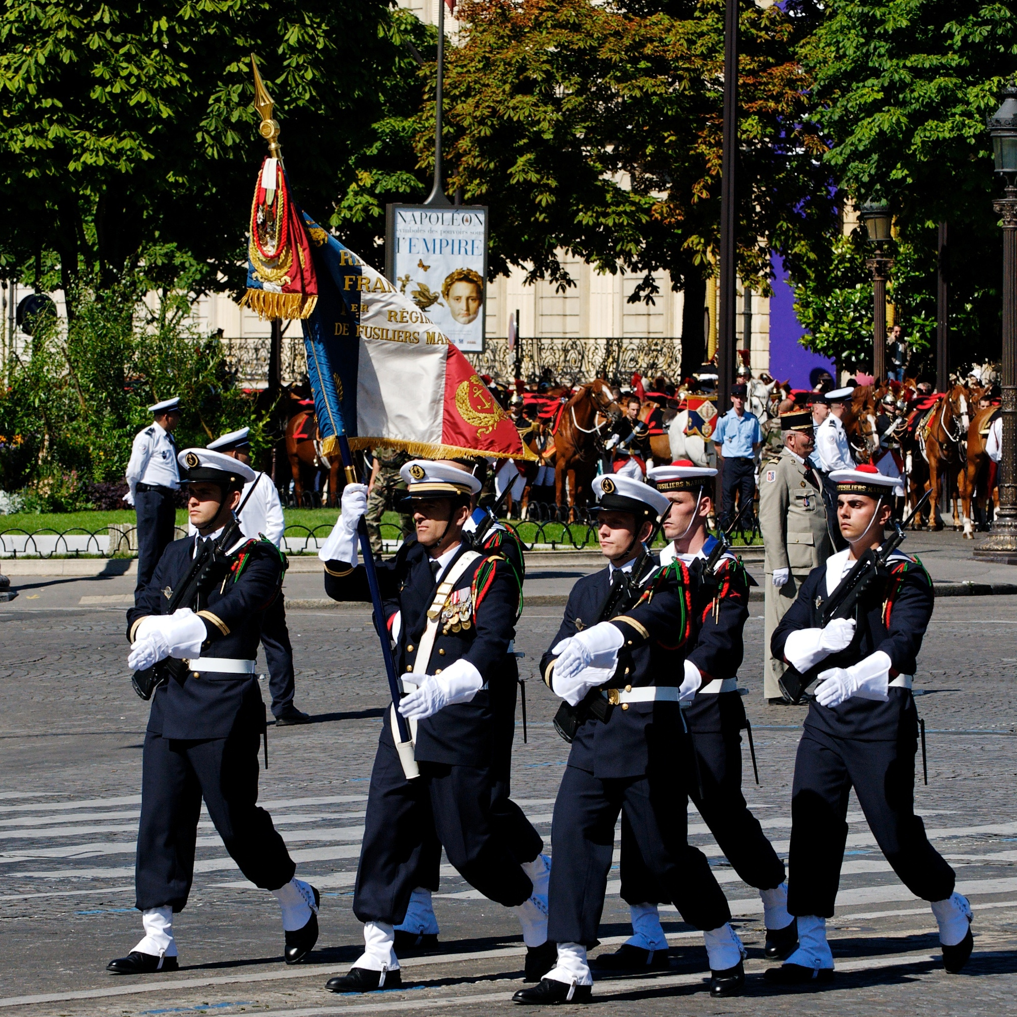 Colour guard of the 1st Regiment of naval fusiliers, Bastille Day 2008 military parade on the Champs-Élysées, Paris.